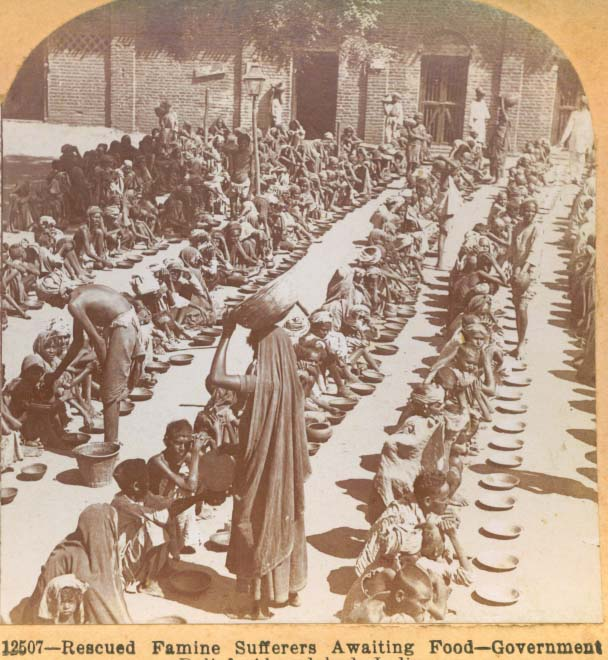 Government famine relief in Ahmedabad, India, circa 1901 (One half of a stereographic image.)